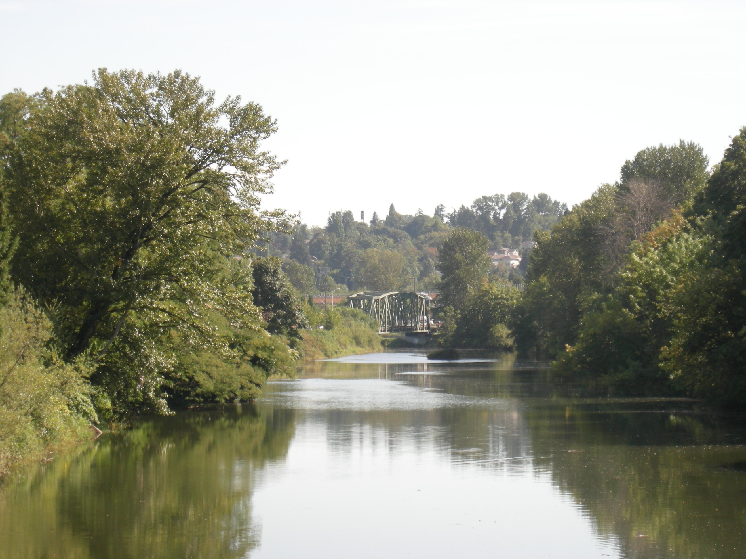 Upper portion of the Duwamish River, Tukwila, Washington, seen from old 119th Street footbridge. Looking upstream. Allentown Bridge in the distance. The tiny island in the middle distance is the remnant of the pier of the Riverton Draw Bridge (also called the Riverton Drawspan, King County Bridge 622-A), built 1903, closed to vehicles 1919, demolished 1927.